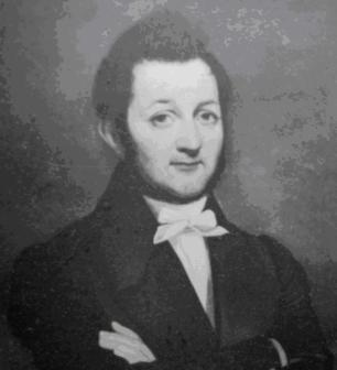 Portrait of André Koechlin (1789-1875) by Dubuffe.